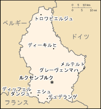 map of Luxembourg, converted directly from CIA World Factbook GIF